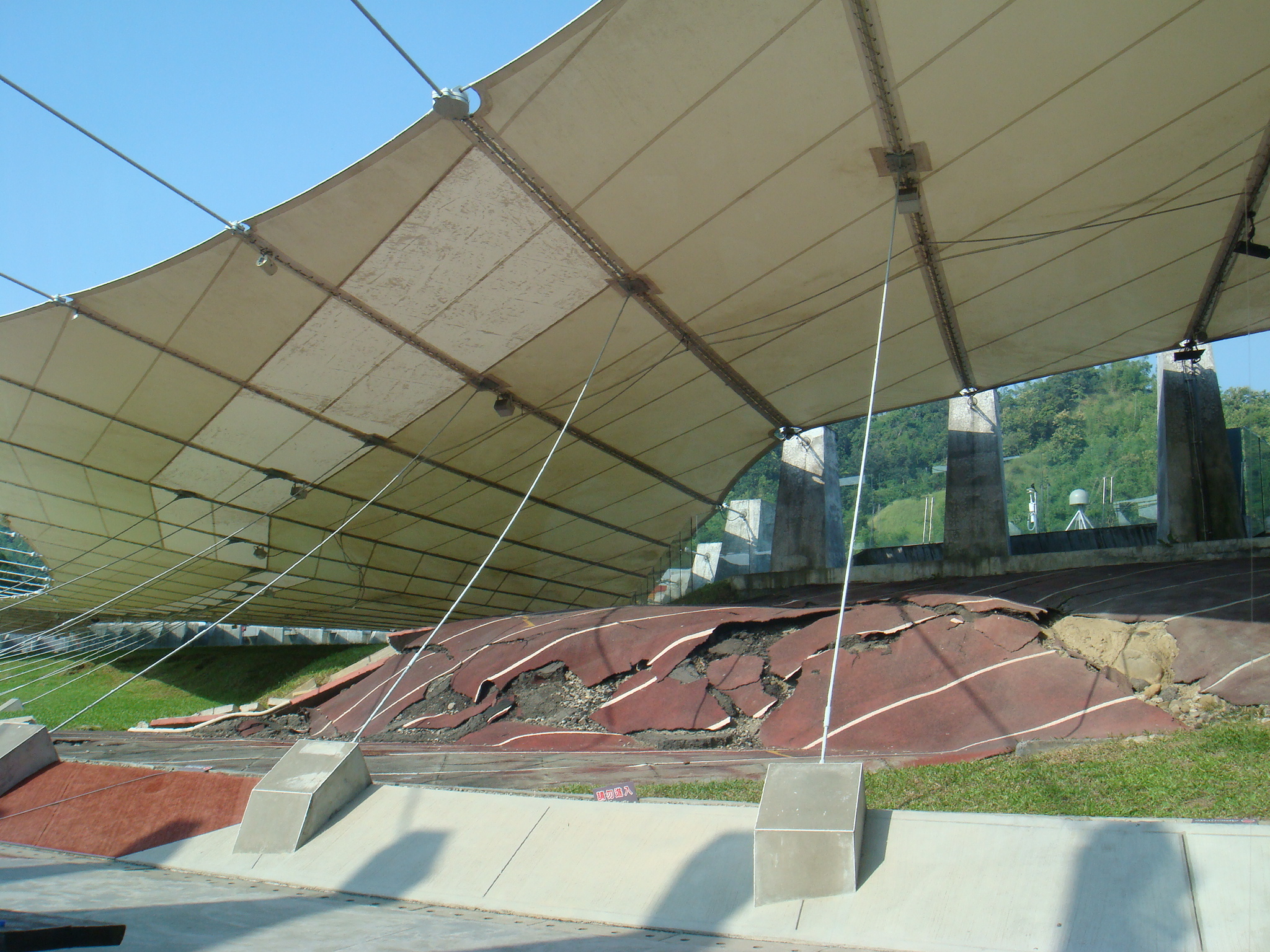 A destroyed playground in Natural Science's 921 Earthquake Museum of Taiwan. The playground was right on the Chelongpu fault.中文（台灣）: 921地震教育園區內一座被摧毀的操場，車籠埔斷層切過此處。